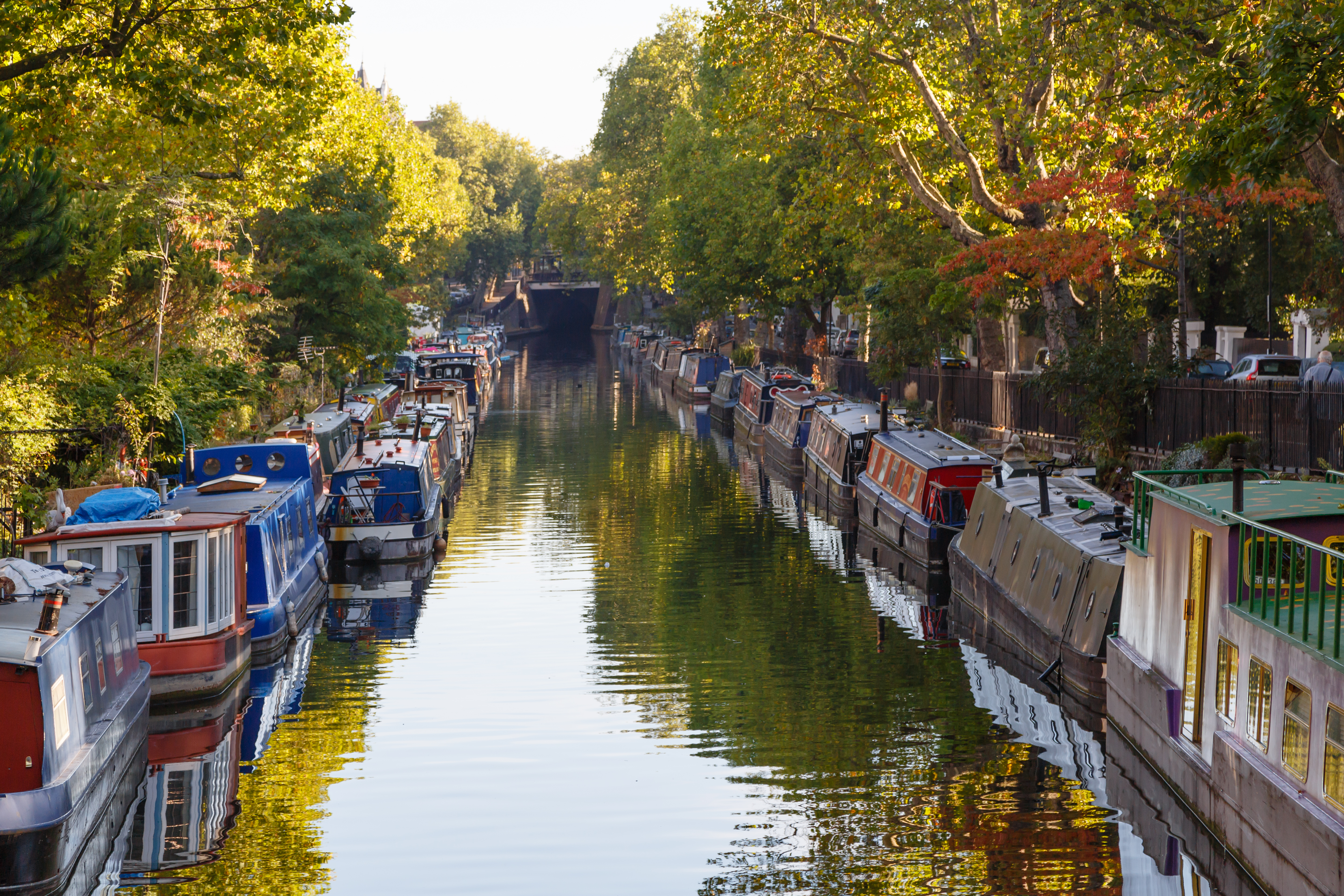 London, UK: House boats mooring in the Grand Union Canal at "Little Venice"